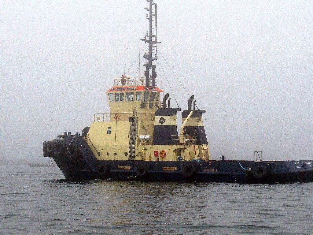 Tug boat POINT CHEBUCTO in Halifax Harbour on a foggy day IMO Number: 9051557 Callsign: CFD6314